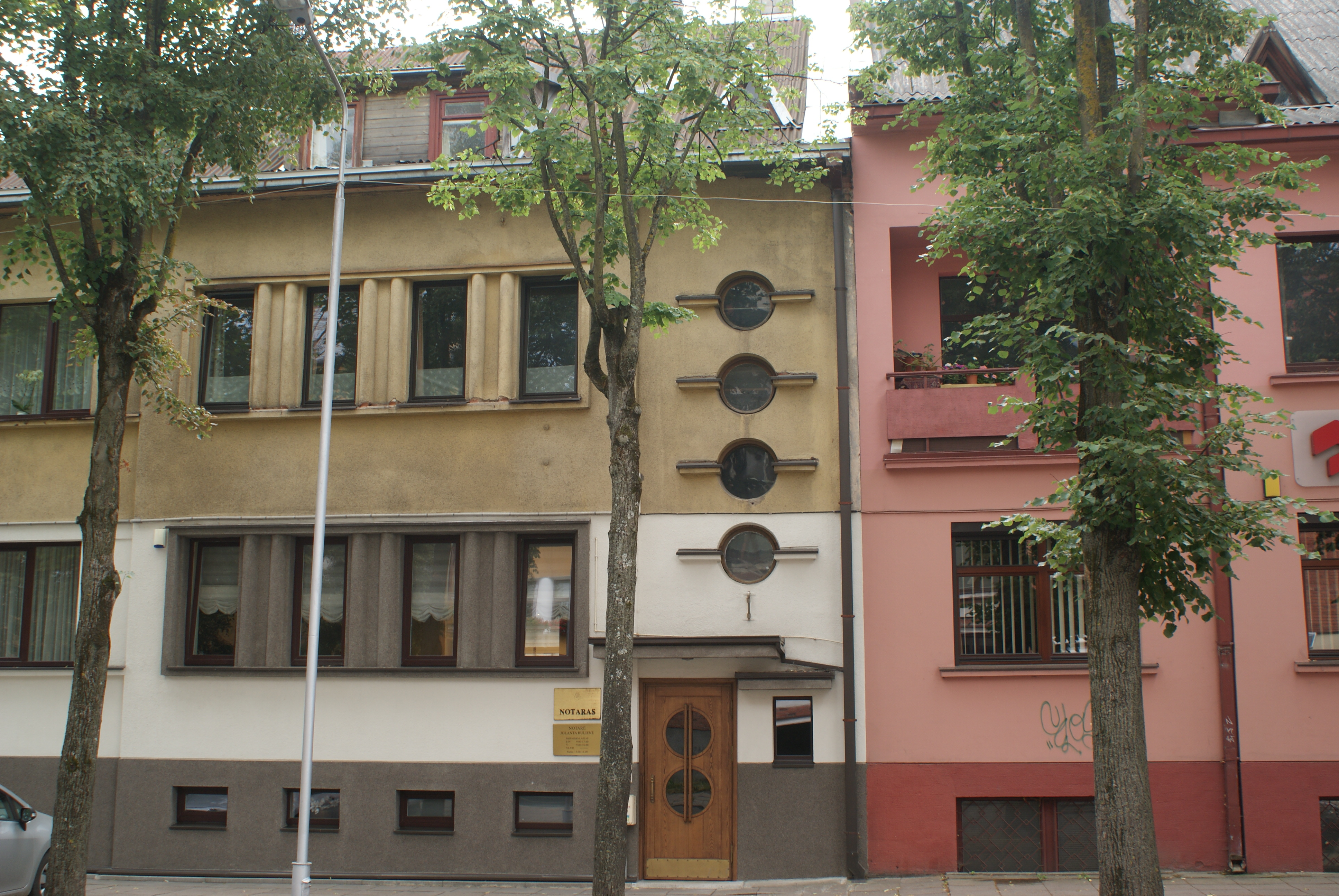 Kaunas street